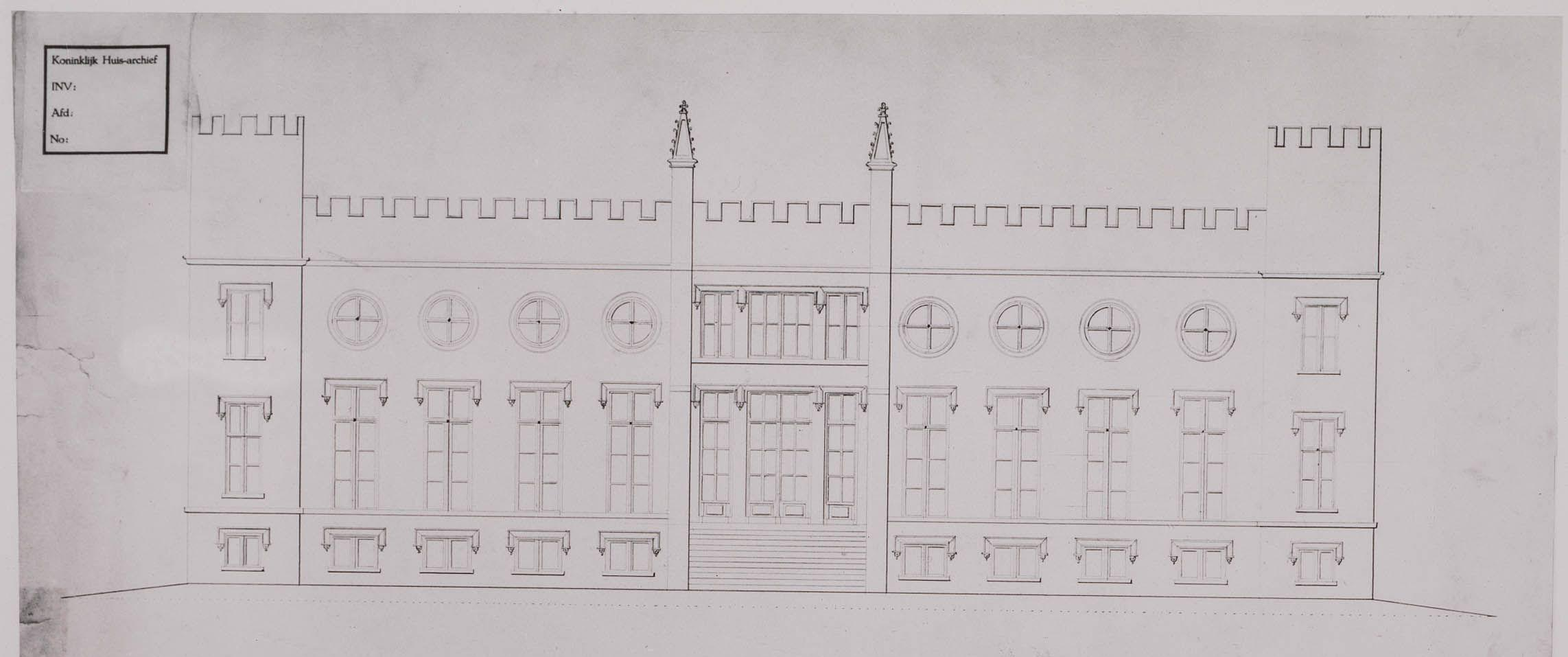 The façade of the Royal Palace in Tilburg, the Netherlands. The present town house of the municipality Tilburg.